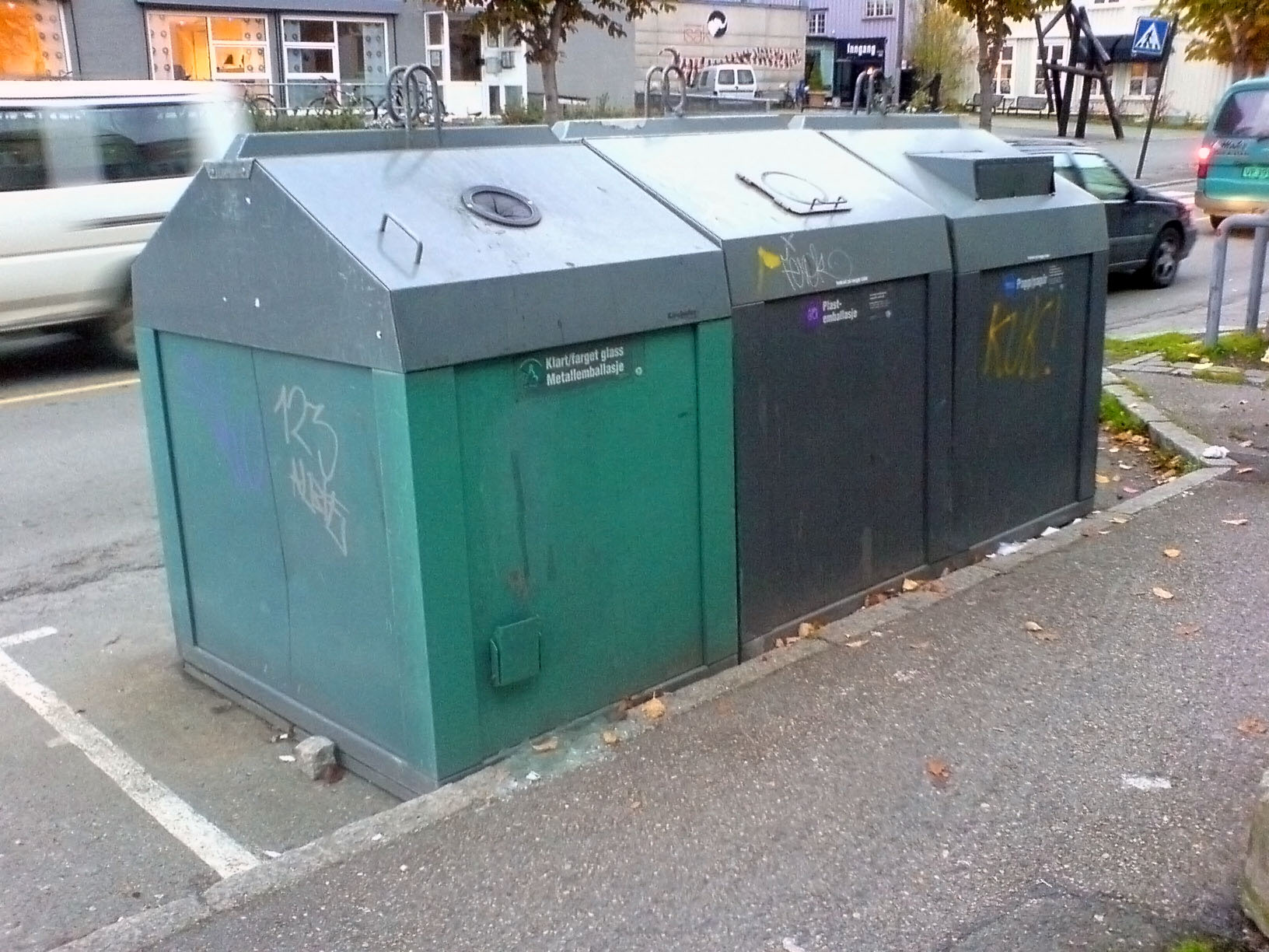 Trash containers for recycling in Trondheim, Norway